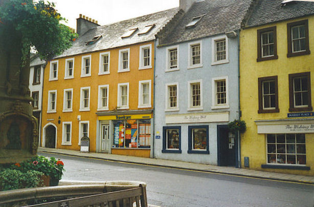 Jedburgh's Market Place.